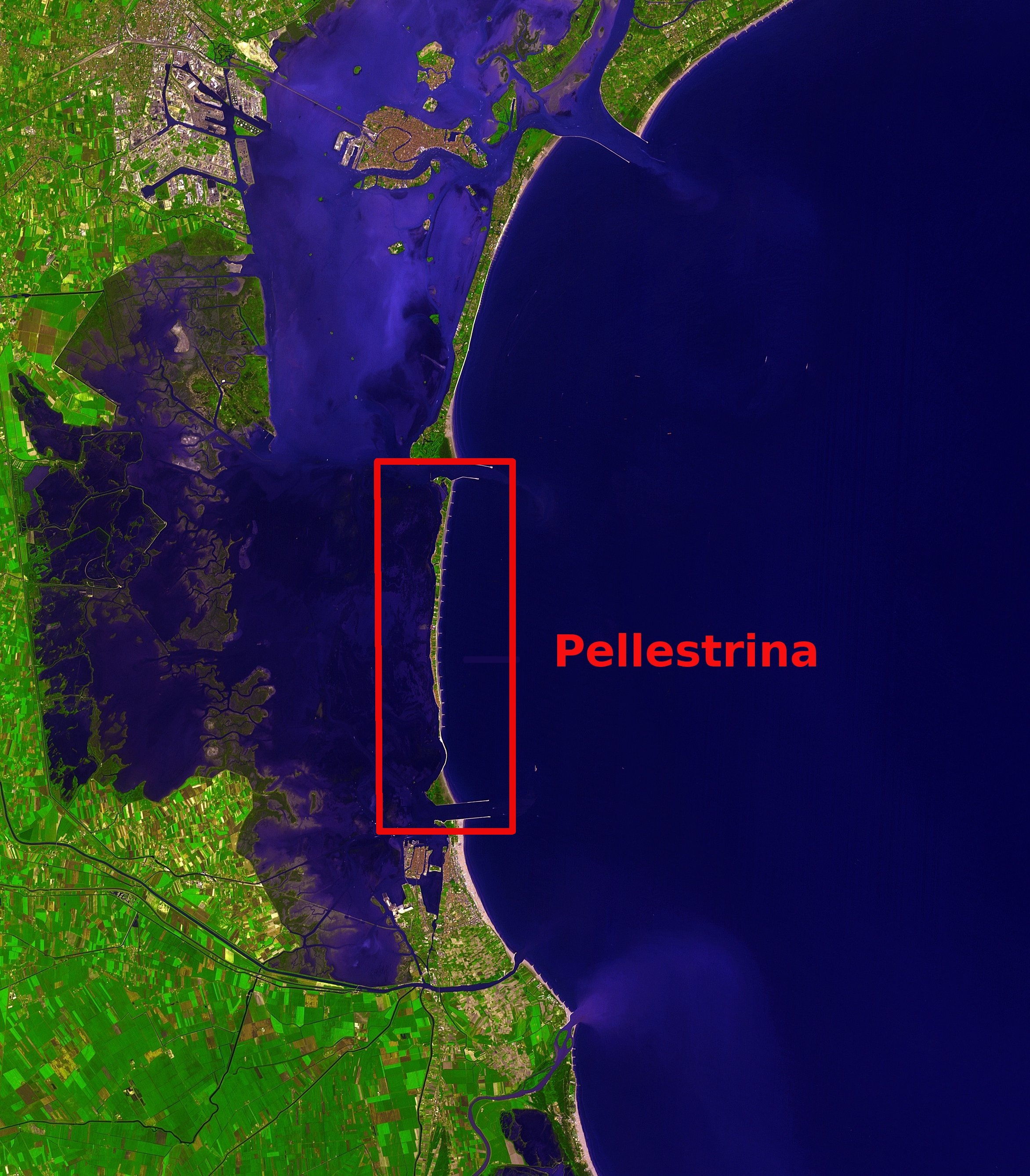 Satellite image of the southern part of the Venetian lagoon (Island of Pellestrina highlighted)